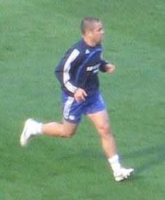 Joe Cole